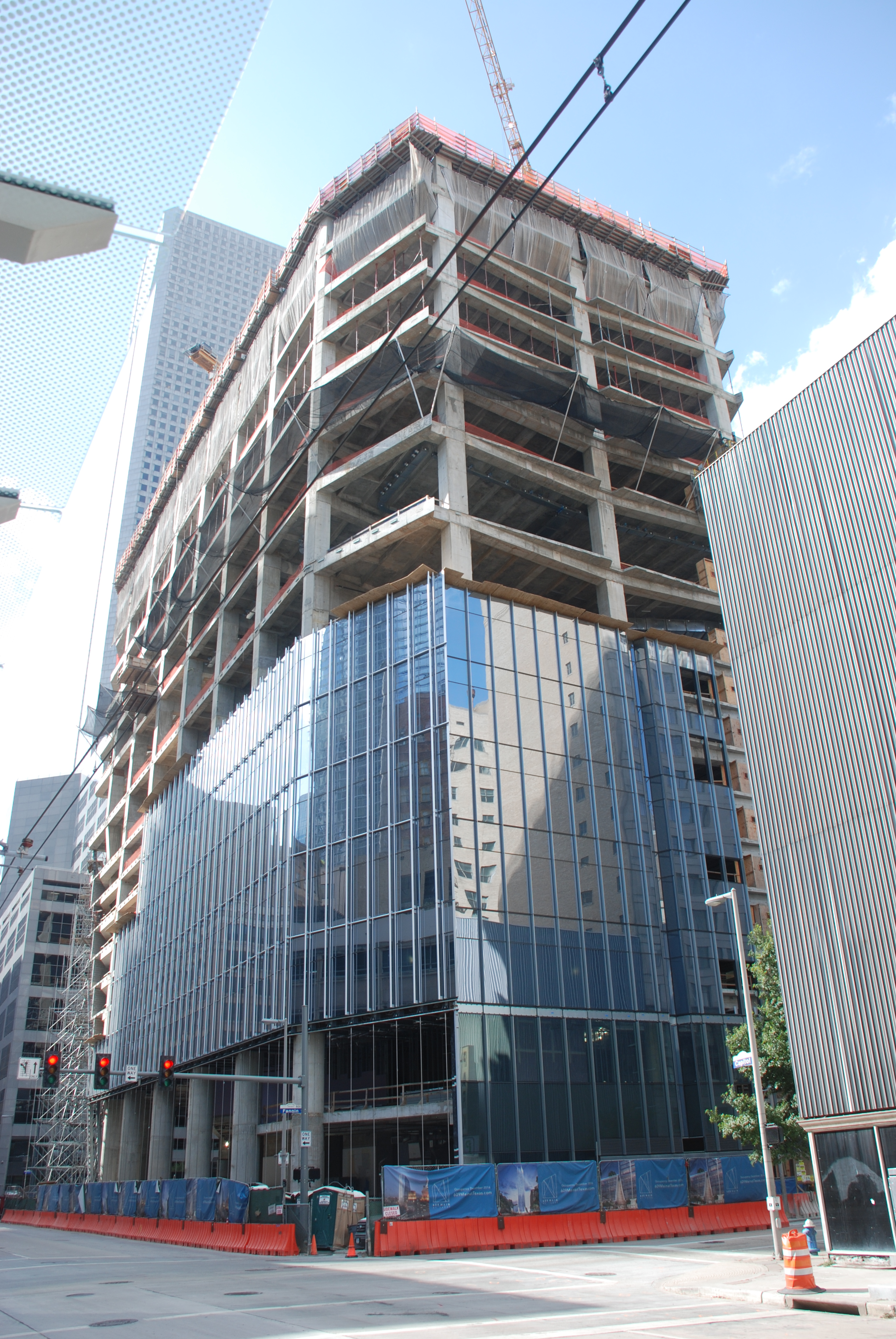 Building at 609 Main Street at Texas (under construction), Downtown Houston